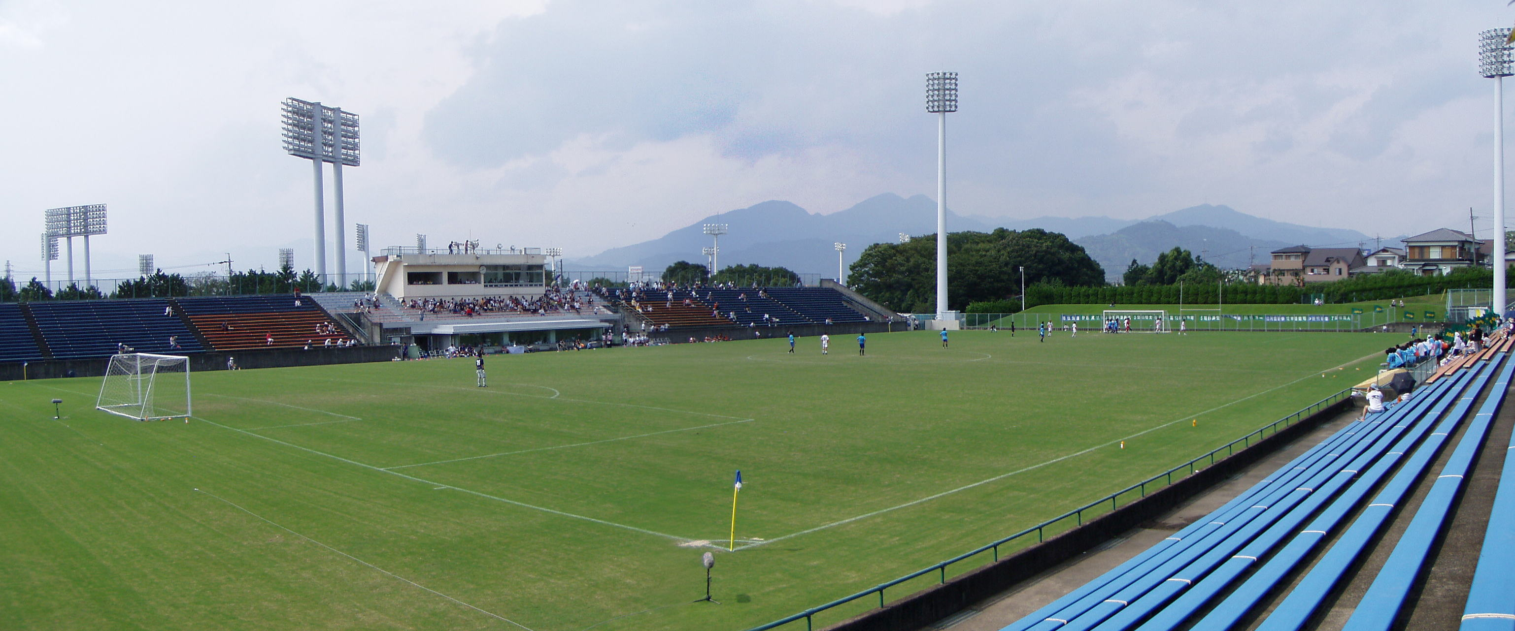 Kusanagi Football Stadium (Shizuoka Pref,Japan)